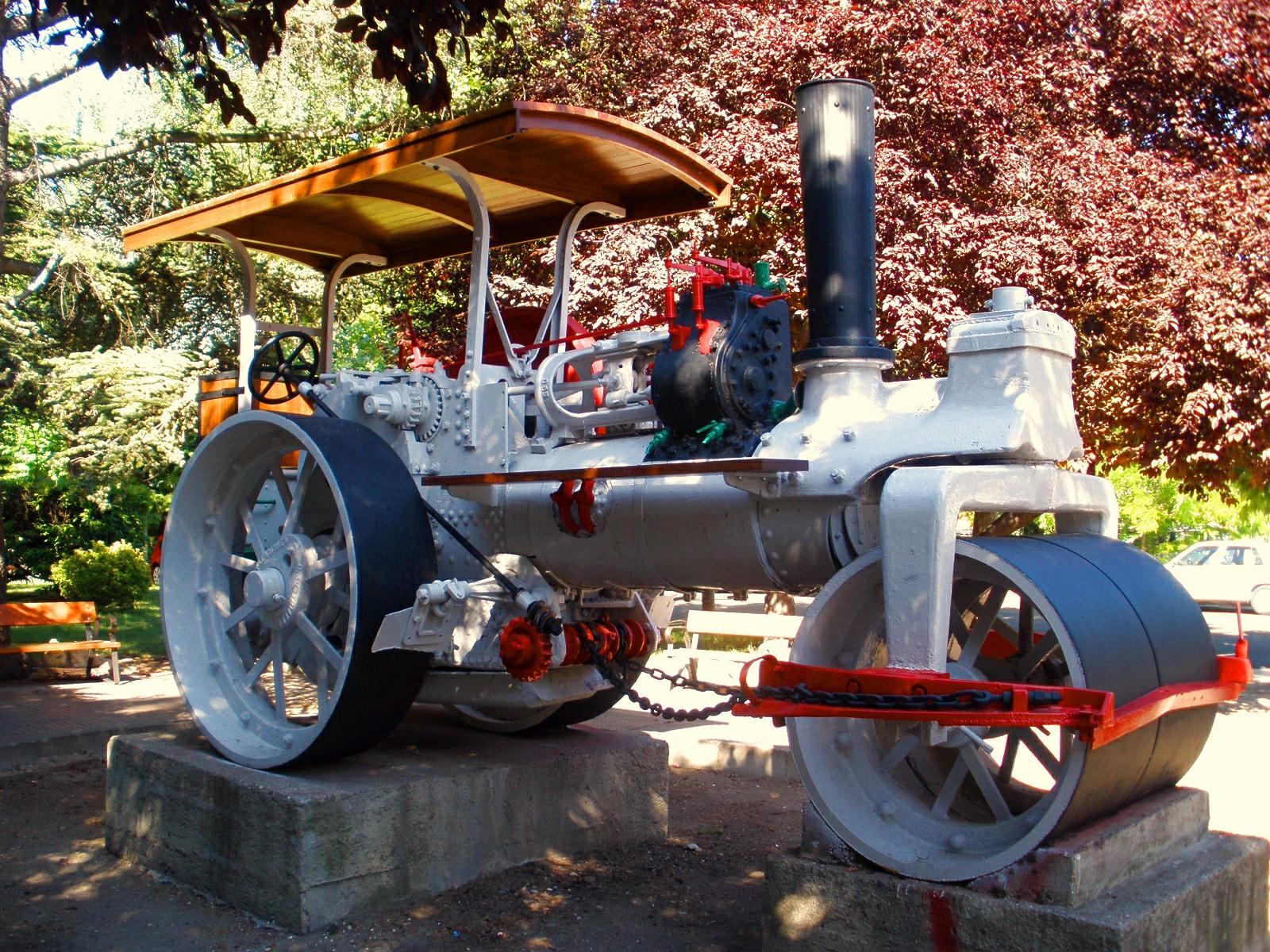 Vieja apisonadora de vapor, en los Jardinillos de la Estación de Palencia (Castilla y León, España/Spain)